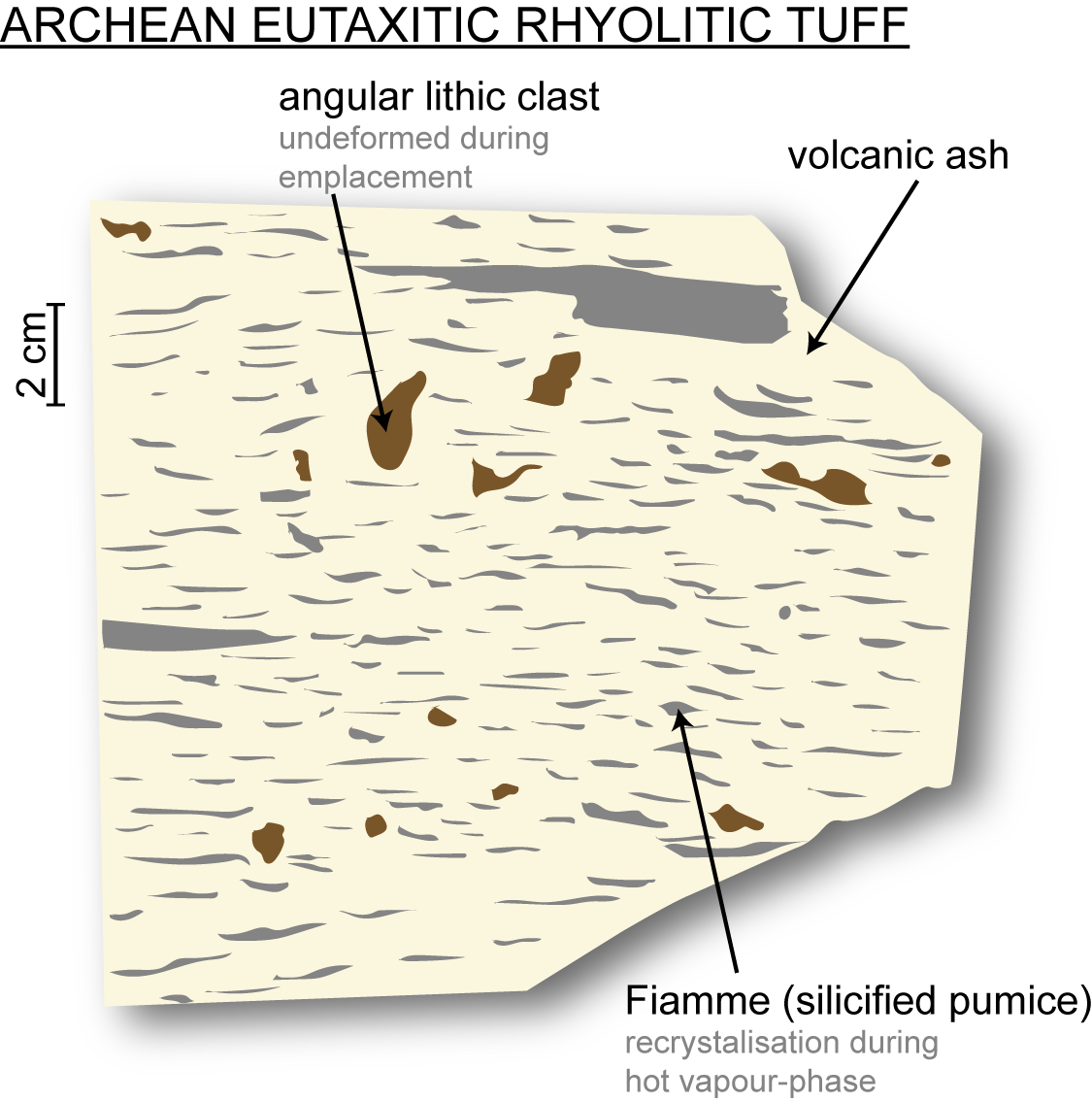 Illustrated sketch of fiamme in Archean eutaxitic rhyolitic tuff